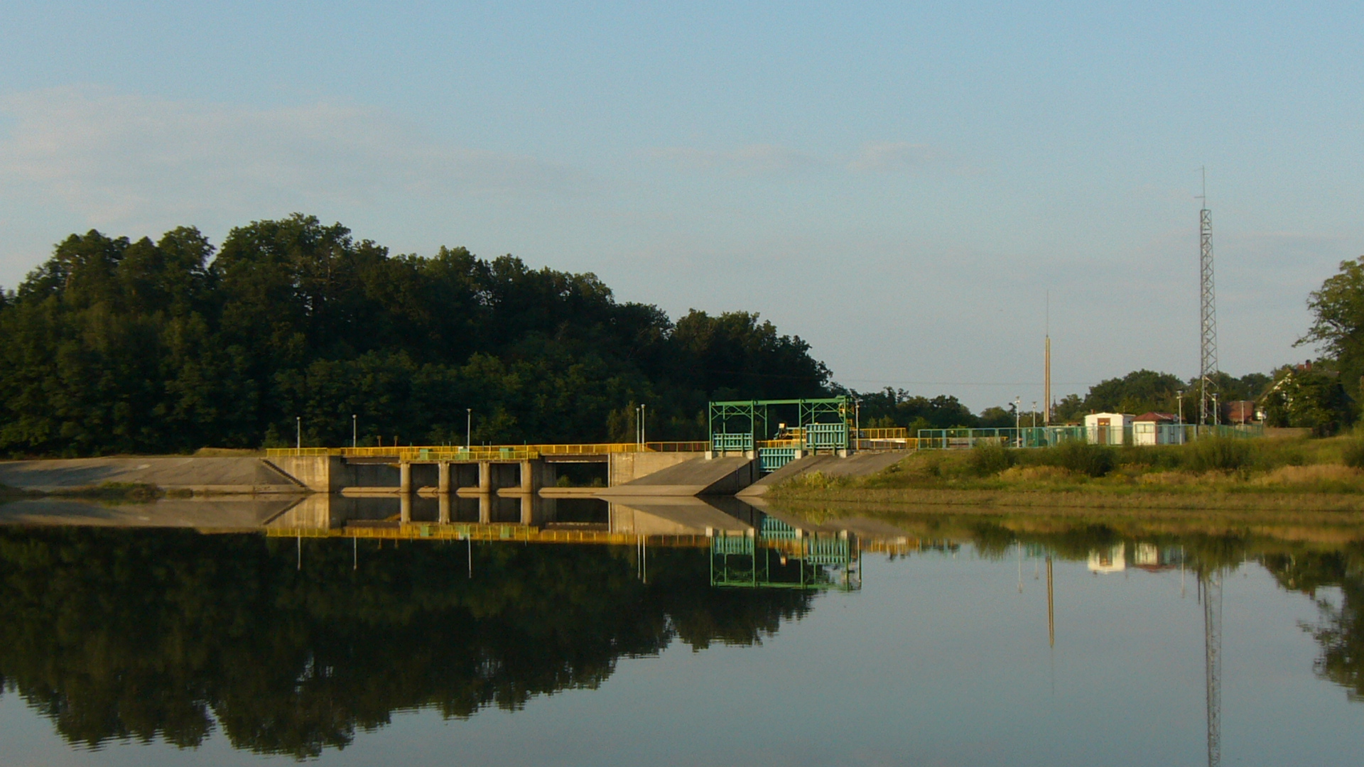 hydroelectric power station in Osiecznica, Poland, dolnoslaskie vojvodship